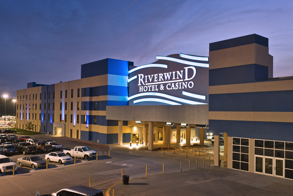 Riverwind Hotel and Casino in Oklahoma.